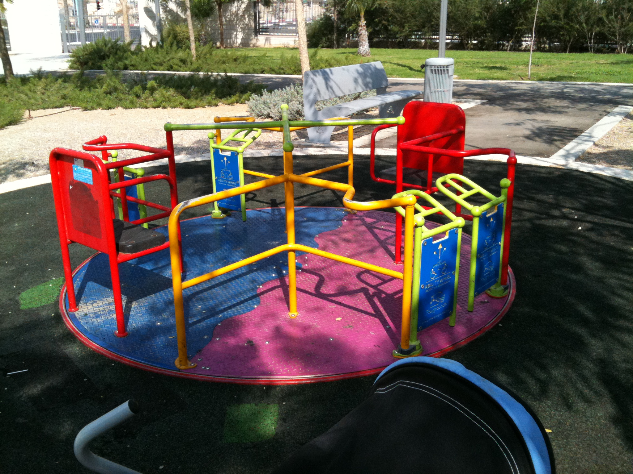 An Accessible Merry Go Round (carousel), The Australian Solder Park, Beersheba, Israel